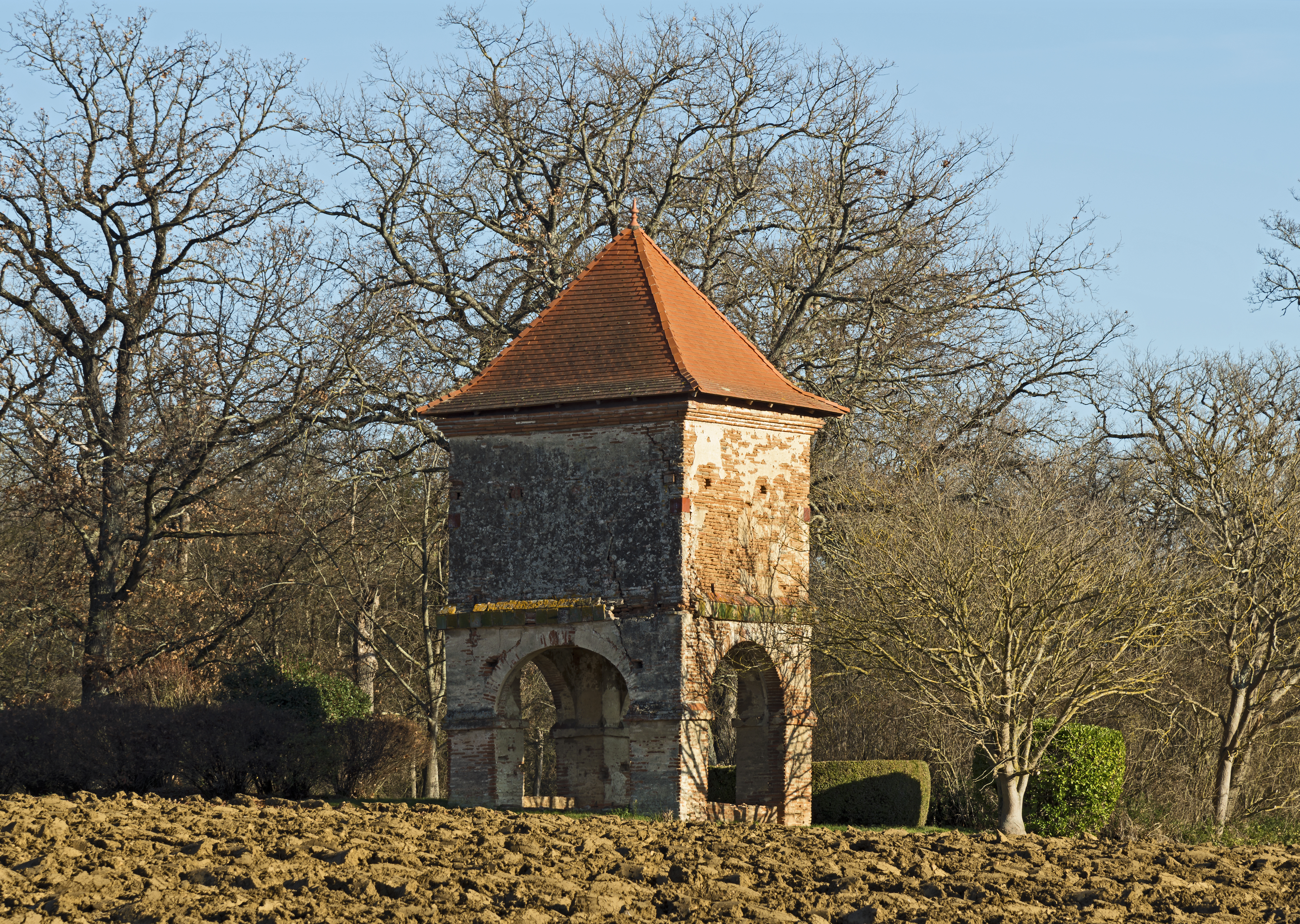 The dovecote du Bouysset instead said "la Cote" - the second half of the eighteenth century. Labege Haute-Garonne, France.